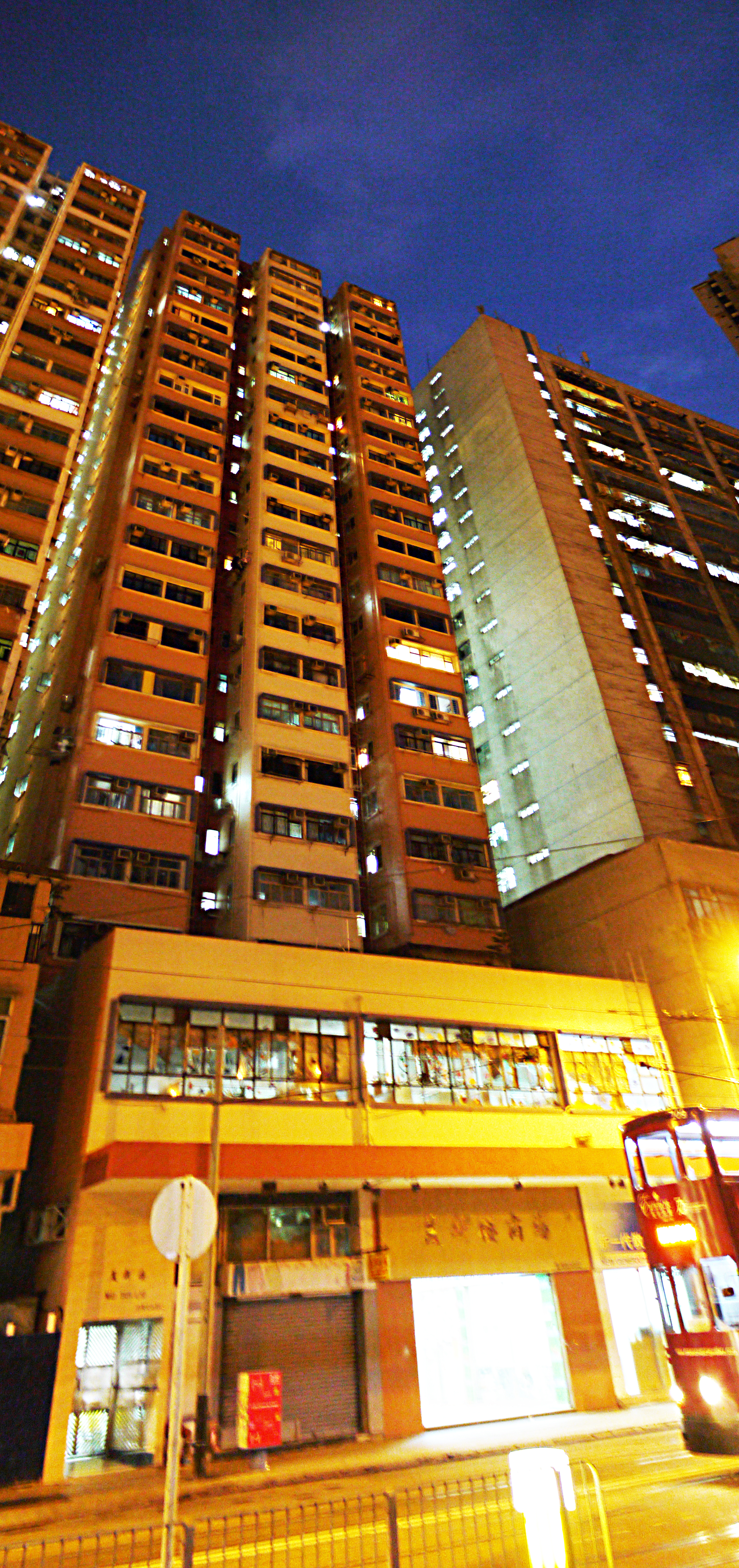 Mei Sun Lau Block A